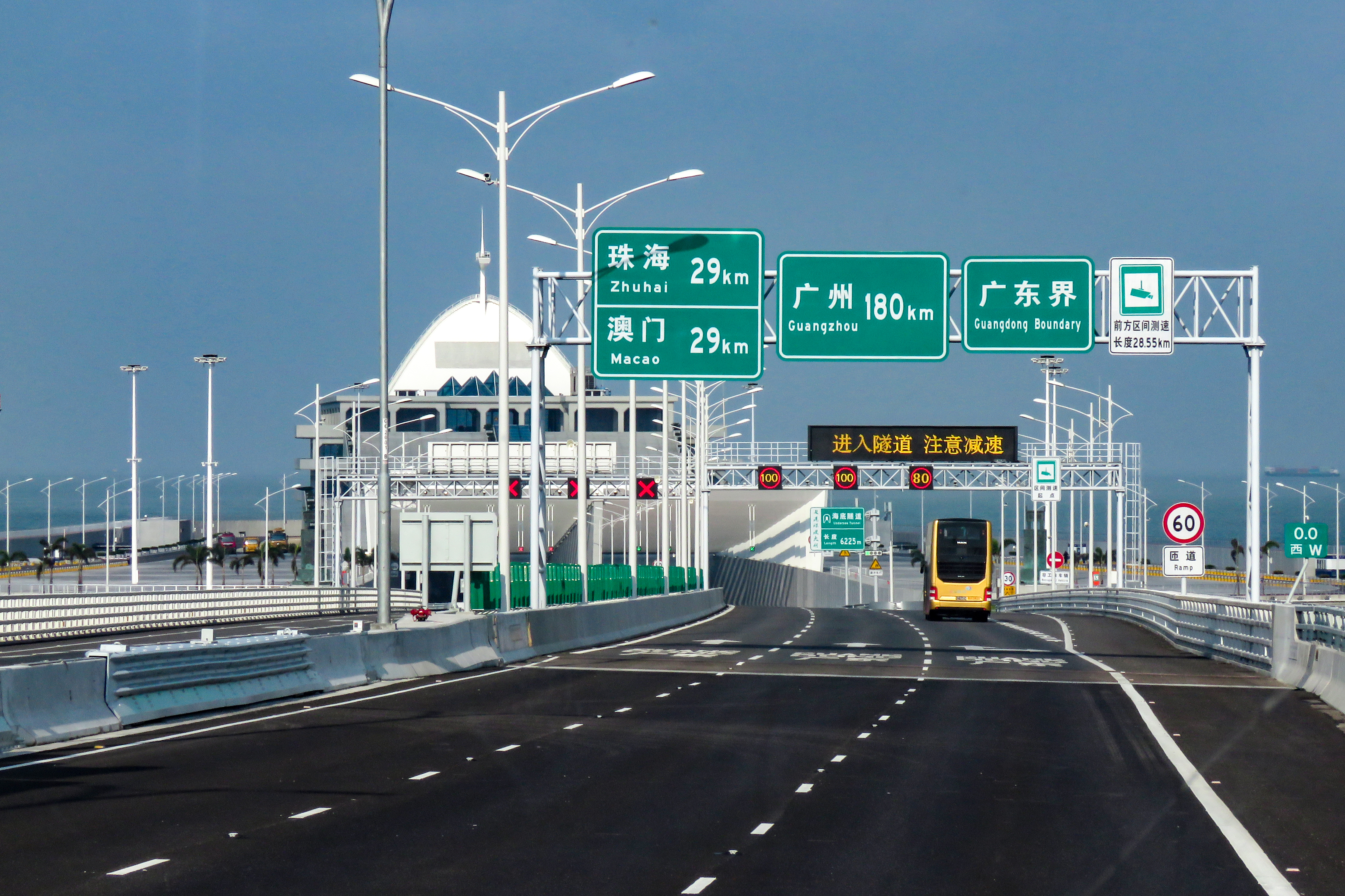 The border is somewhere west of Tai O.